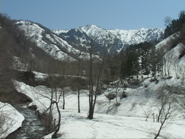 The North face of Mount Arasawa in Uonuma, Niigata Prefecture, Japan.